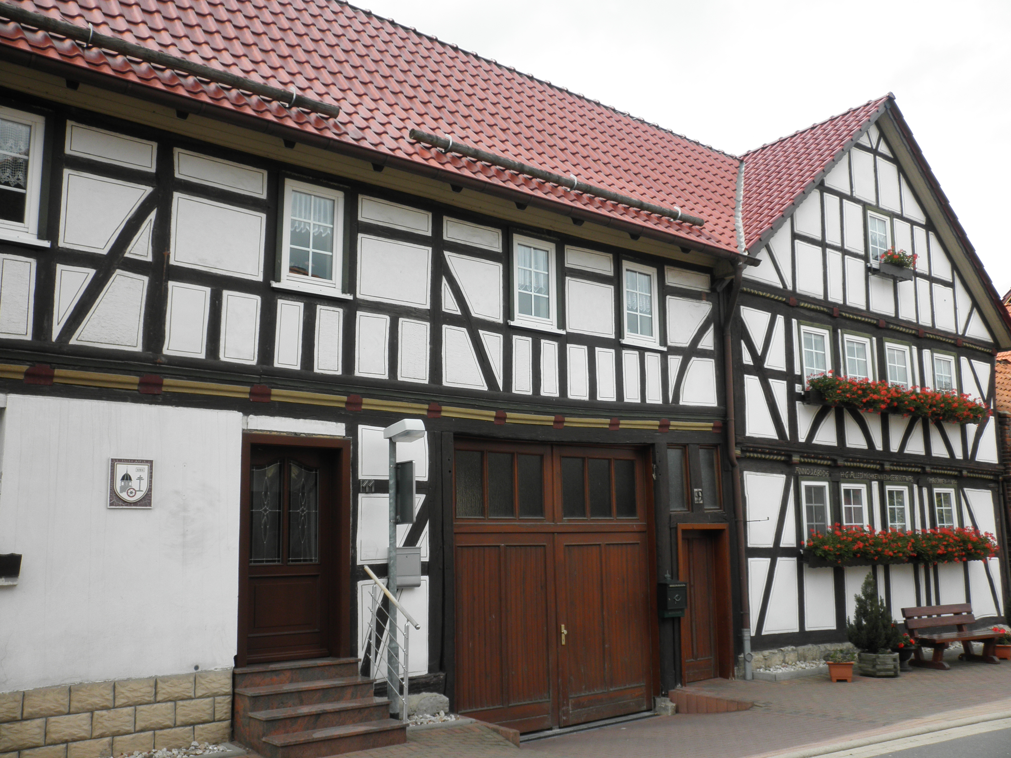 Half-Timbered House in Büttstedt in Thuringia